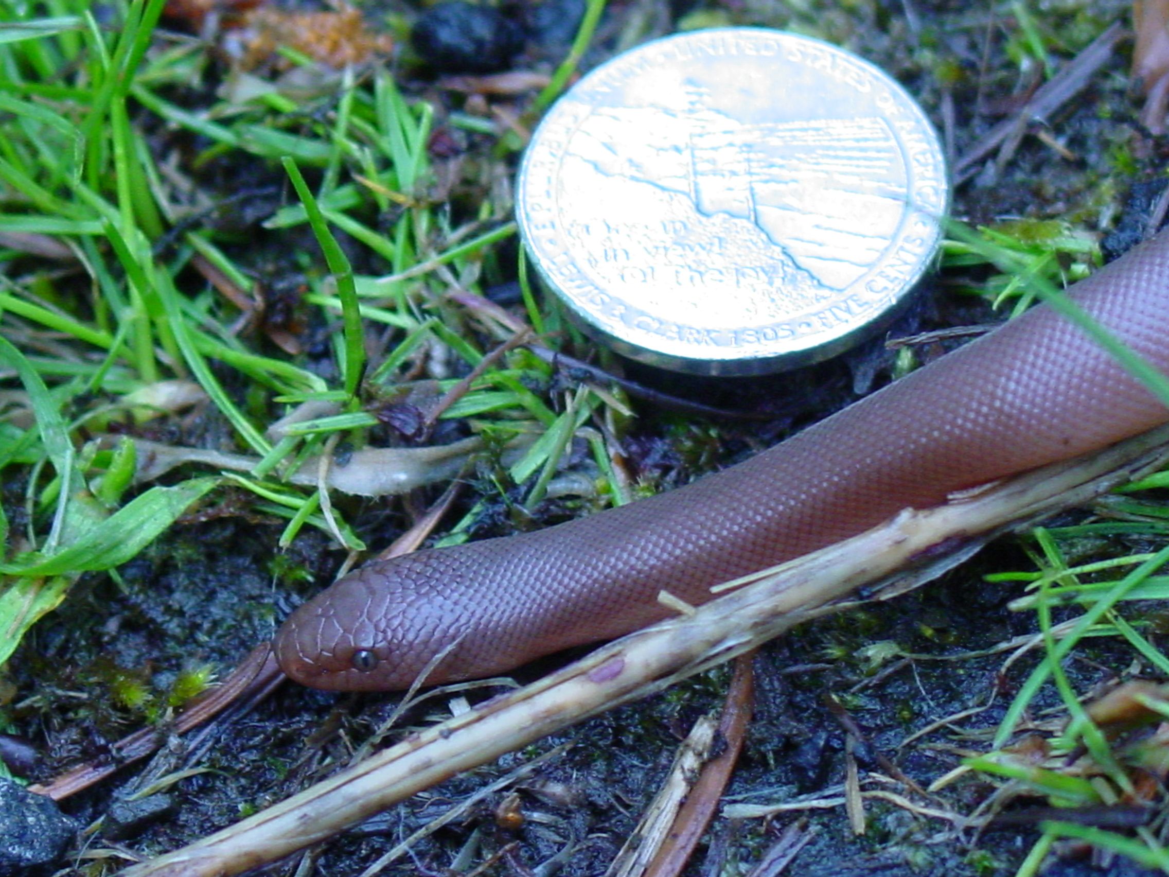 Small Rubber Boa near Multnomah Falls, Oregon, United States. Shown with a US nickel for size comparison